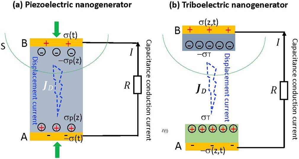 Fig. 2. (a) Thin film based piezoelectric nanogenerators and (b) Contact-separation mode triboelectric nanogenerators.